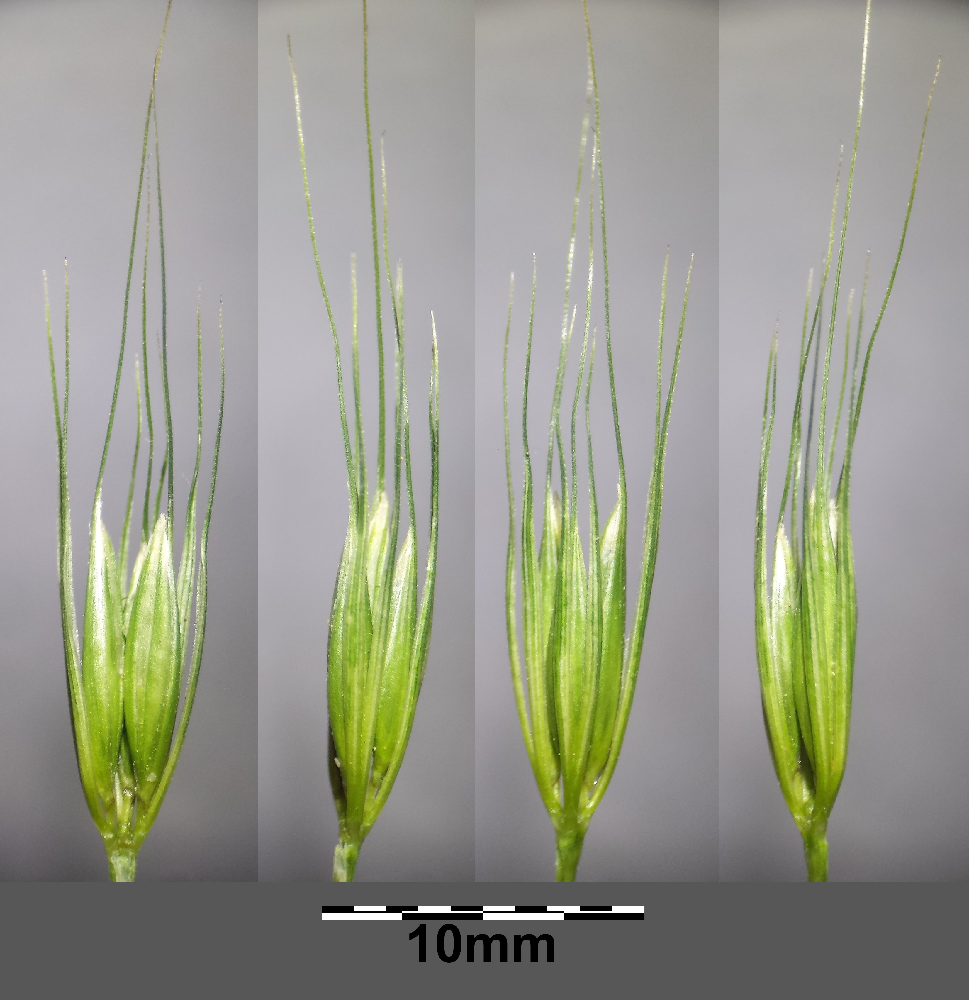 Spikelet triade Taxonym: Hordelymus europaeus ss Fischer et al. EfÖLS 2008 ISBN 978-3-85474-187-9 Location: Galgenwald east of Merkersdorf, district Korneuburg, Lower Austria - ca. 280 m a.s.l. Habitat: bright wood